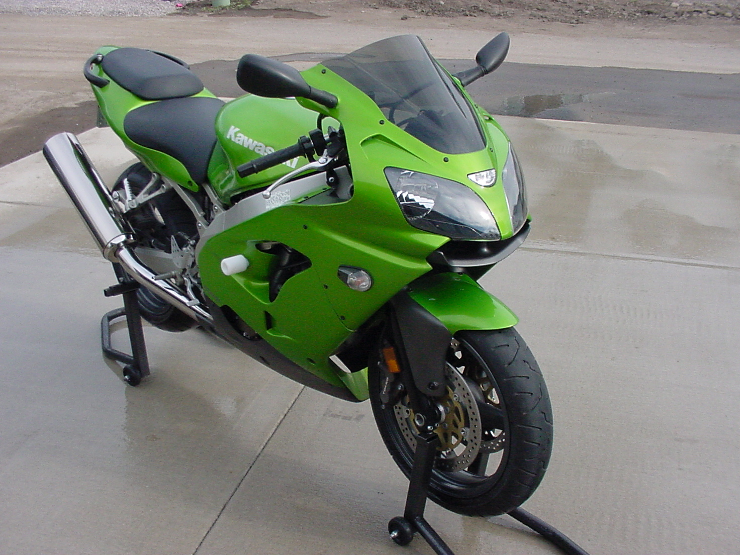 2001 Kawasaki ZX9R